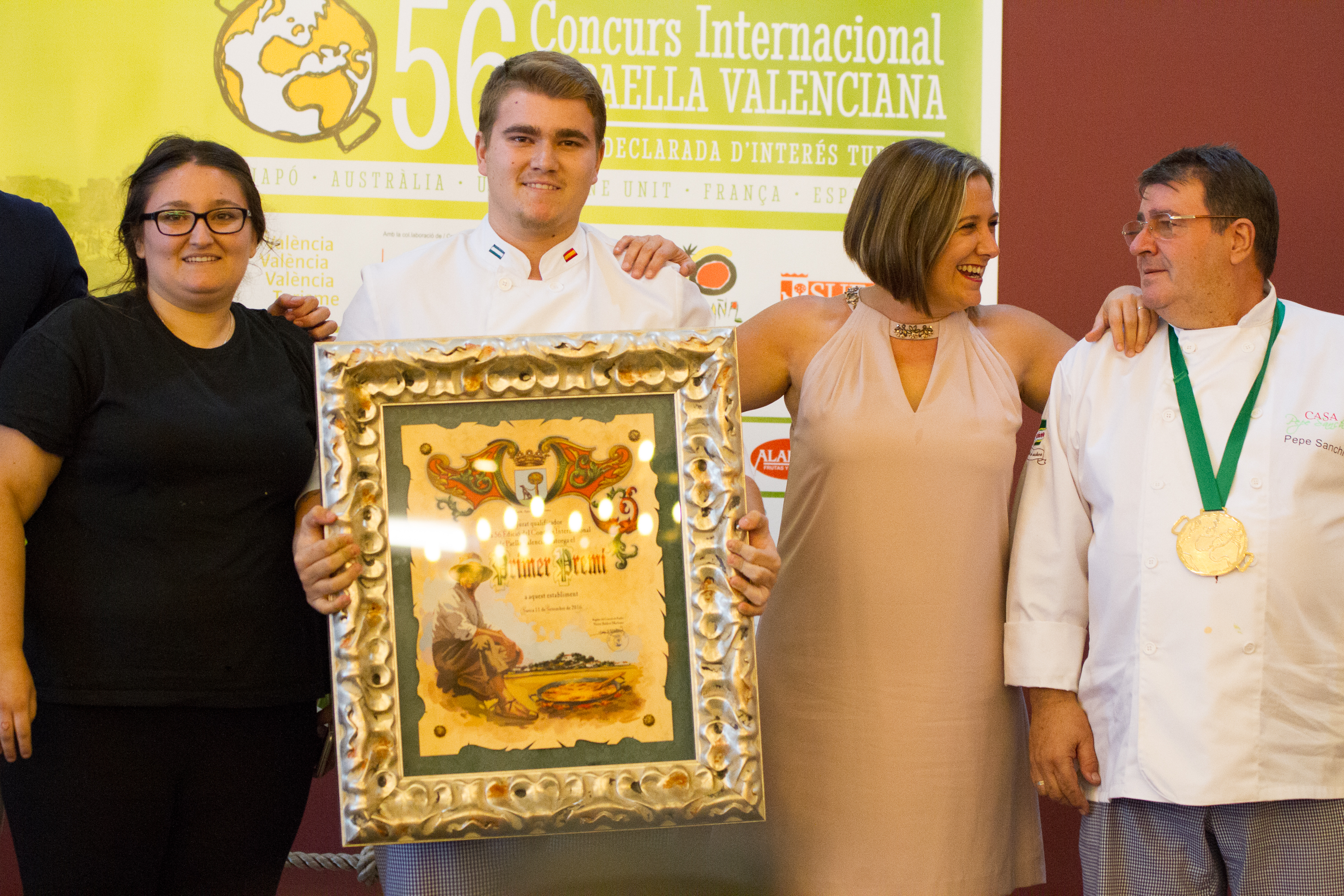 Awards ceremony of the 56th International Paella Contest of Sueca, 2016.